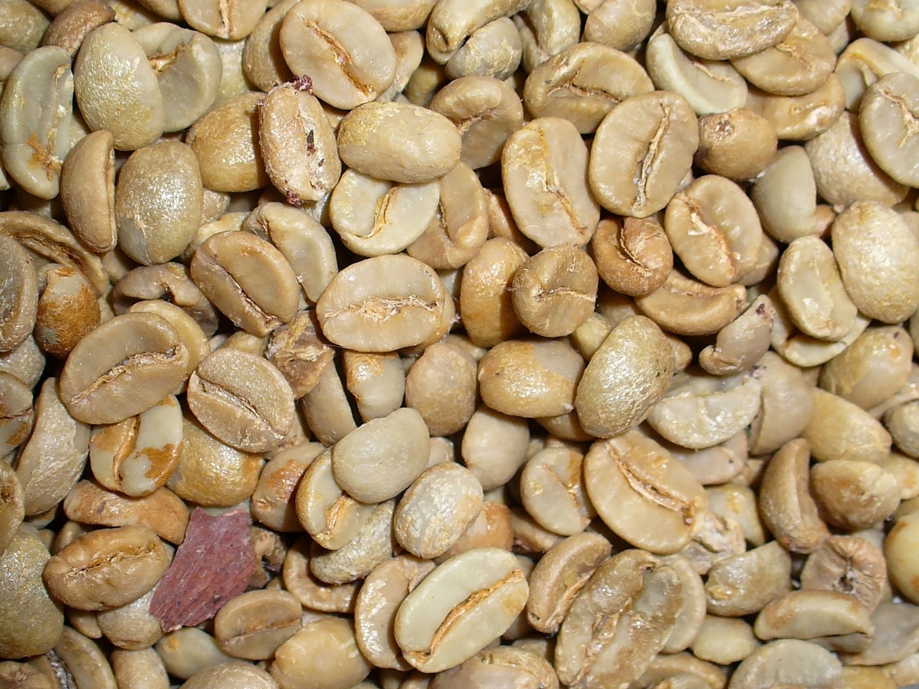 Coffea arabica, Rubiaceae, Arabica Coffee, Mountain Coffee, unroasted beans; Ettlingen, Germany. The unroasted dried beans are used in homeopathy as remedy: Coffea (Coff.)